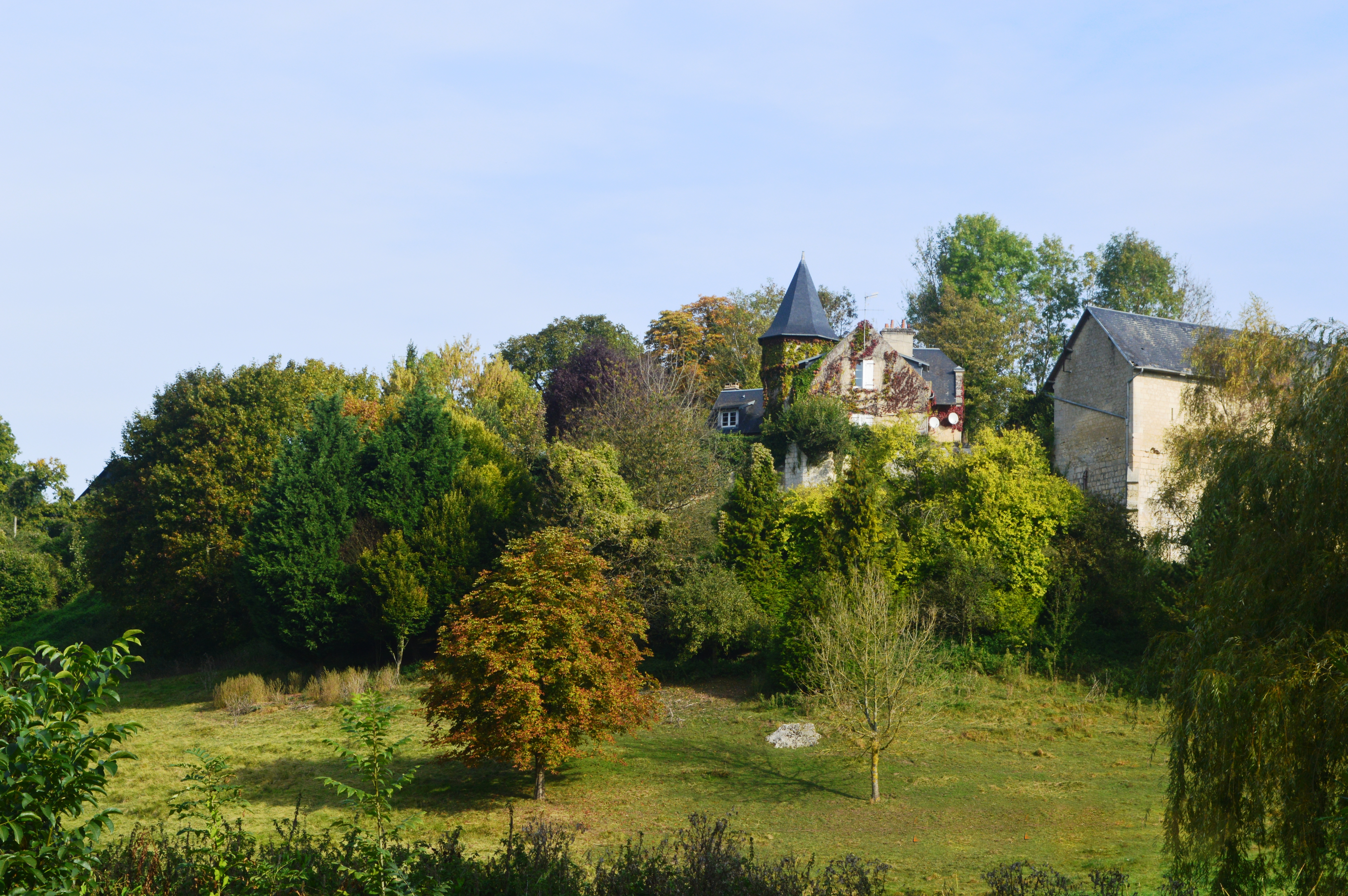 General View of Bassoles-Aulers